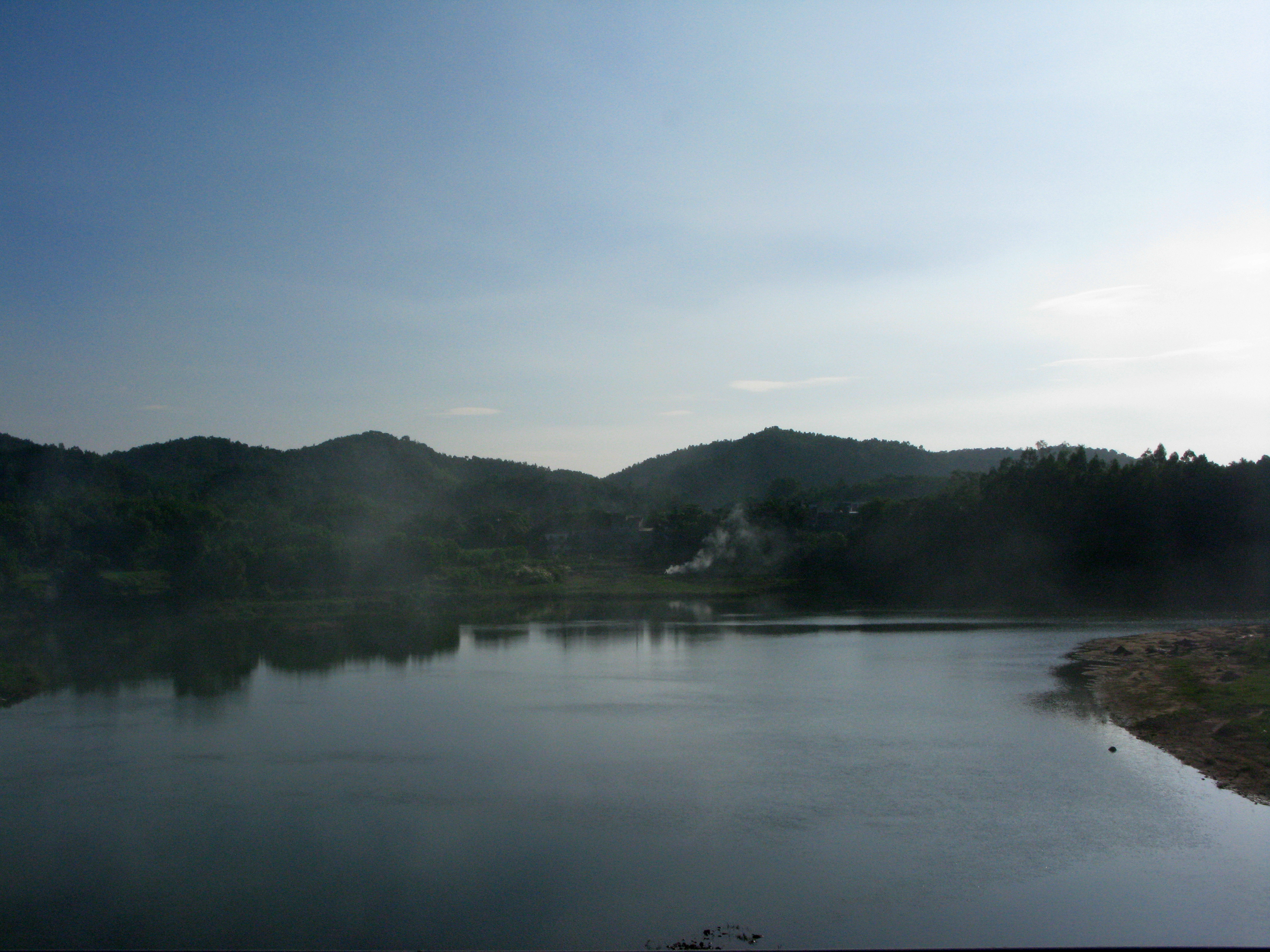 Tiên Yên river when flows through Tiên Yên District, Quảng Ninh Province, Việt Nam. The picture was taken from Tiên Yên Bridge in the national road #18.